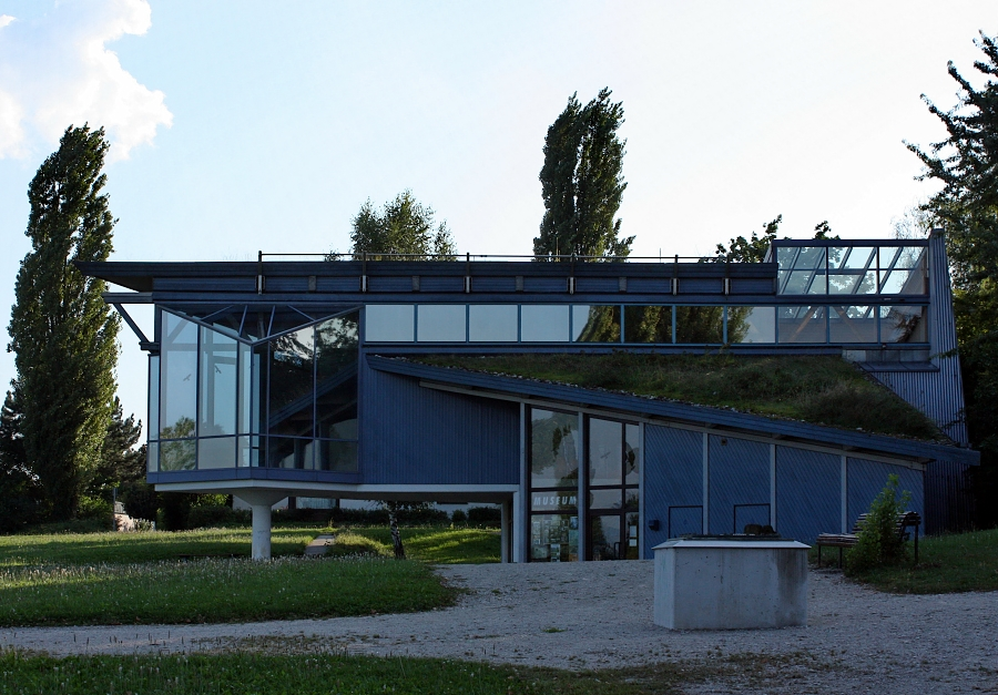 Roman Museum in Köngen (Baden-Württemberg, Germany)